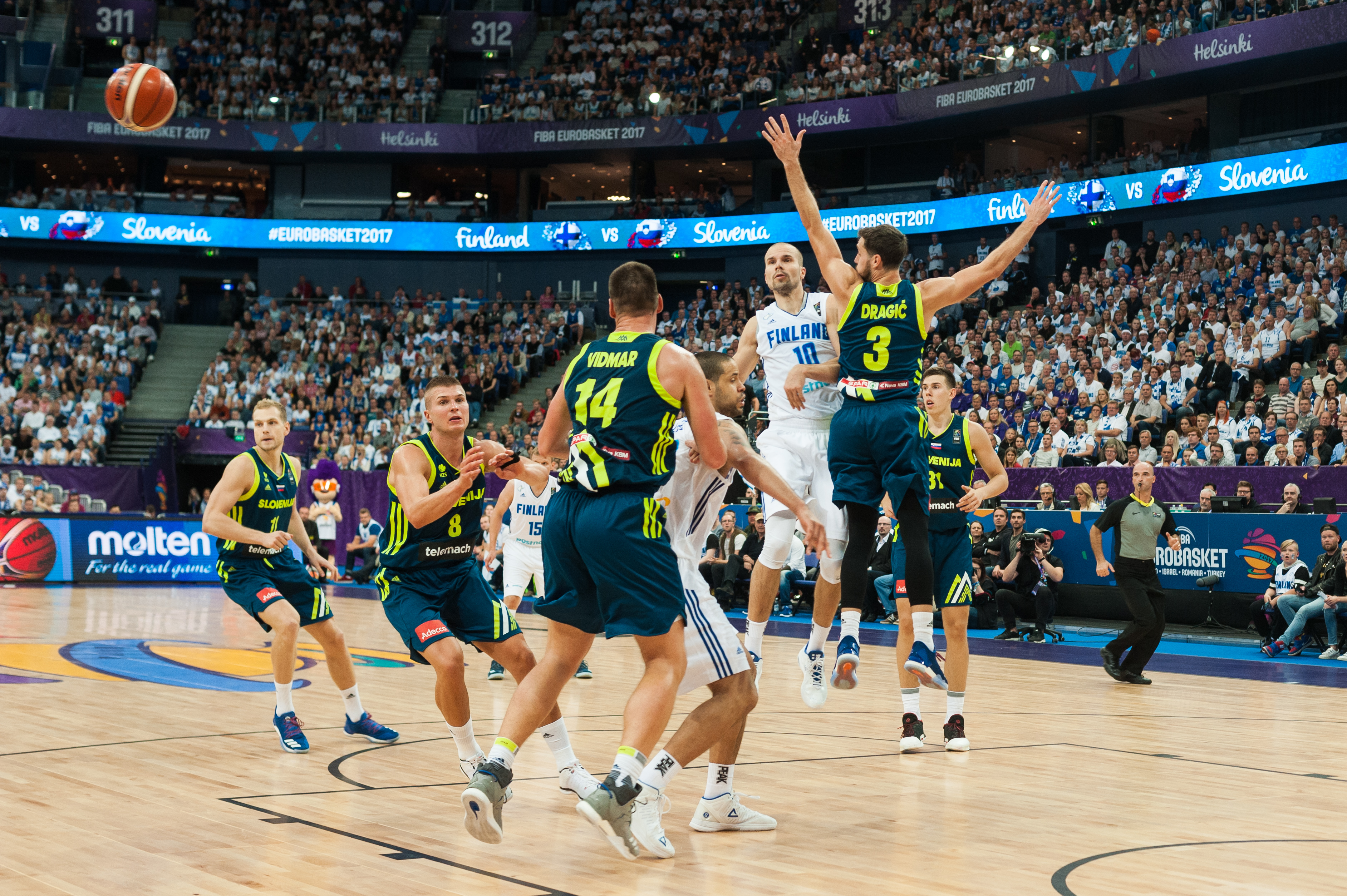 EuroBasket 2017 Group A game between Finland and Slovenia at Hartwall Arena in Helsinki, Finland.